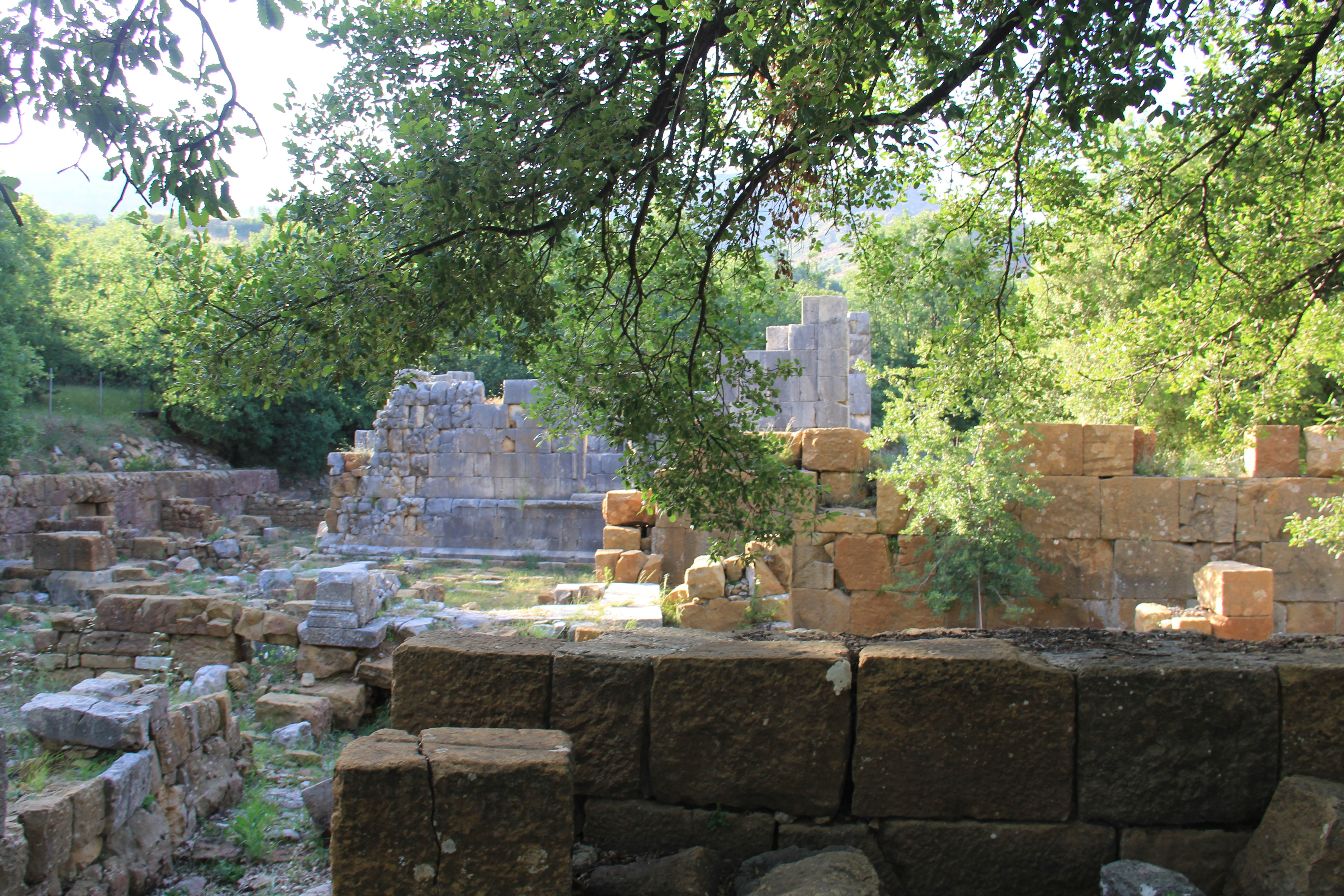 الحجارة ذات اللون الازرق كانت تؤلف المعبد الوثني و الحجارة الداكنة كانت تؤلف الكنائس التي تعود للعصور الوسطي